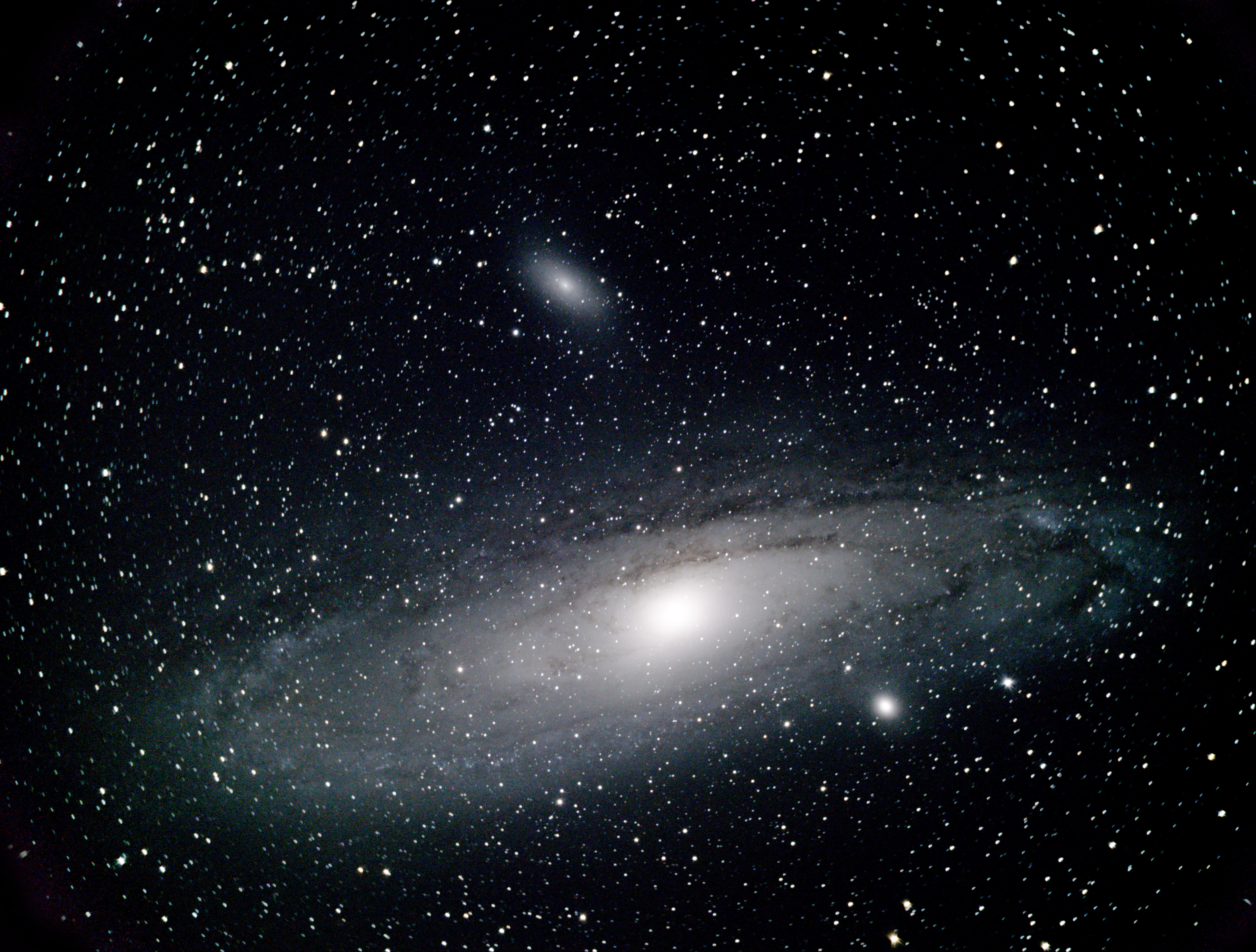 The Andromeda Galaxy, our nearest galactic neighbor; ~30 minutes total light exposure